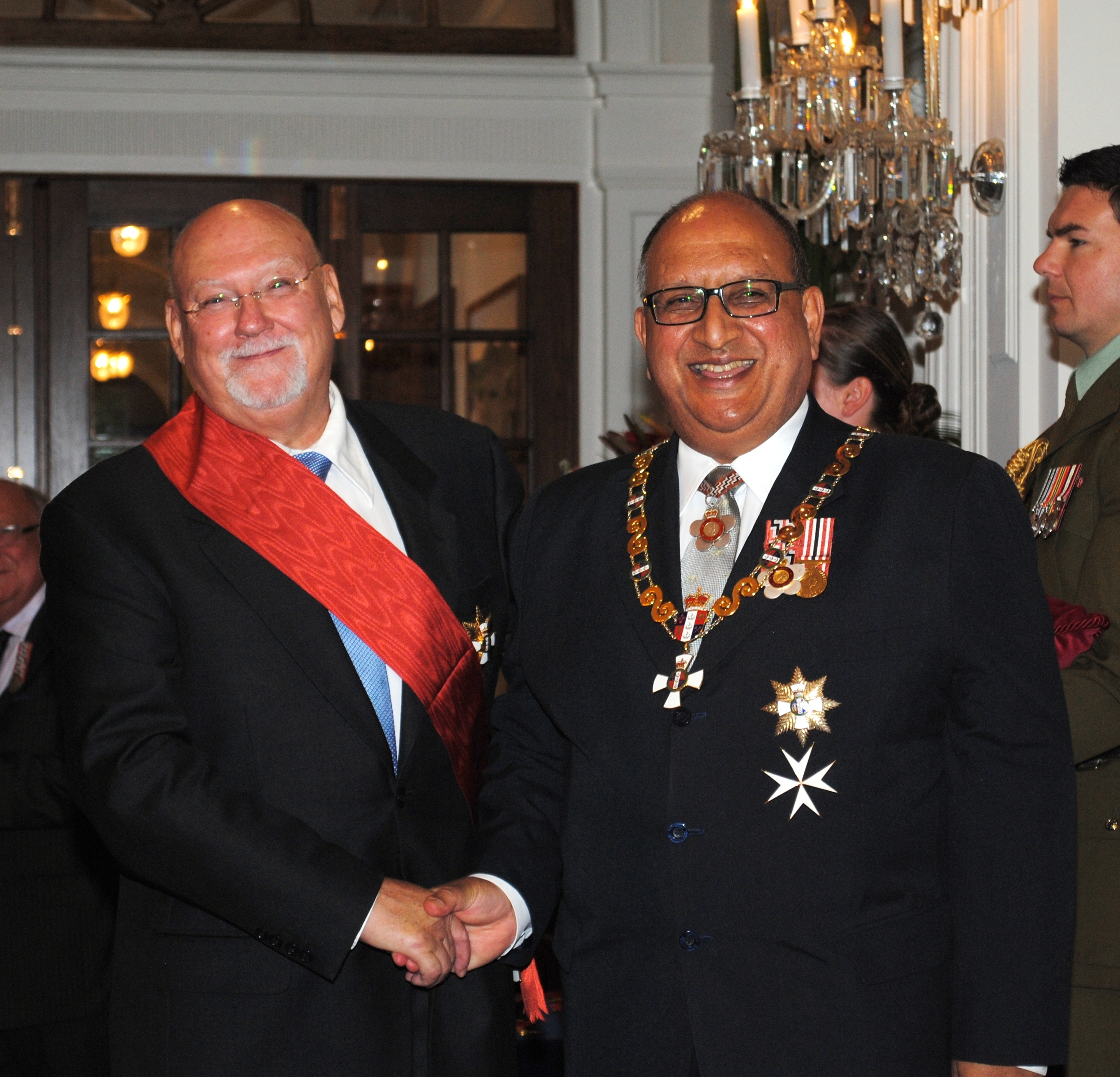 Ray Avery (left), after his investiture as GNZM for services to philanthropy, by the governor-general, Sir Anand Satyanand, on 14 April 2011